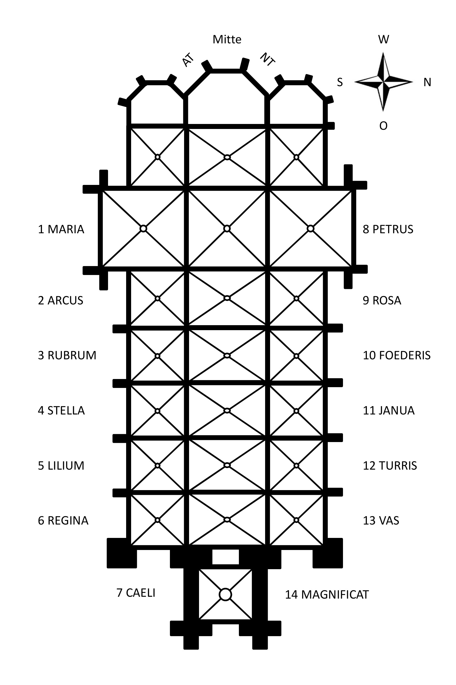 Schematic floor plan of St Mary's Church Kaiserslautern with description of window positions